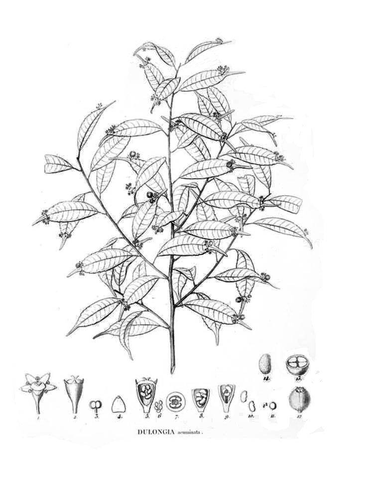 Illustration of Phyllonoma ruscifolia (Orig. Dulongia acuminata)